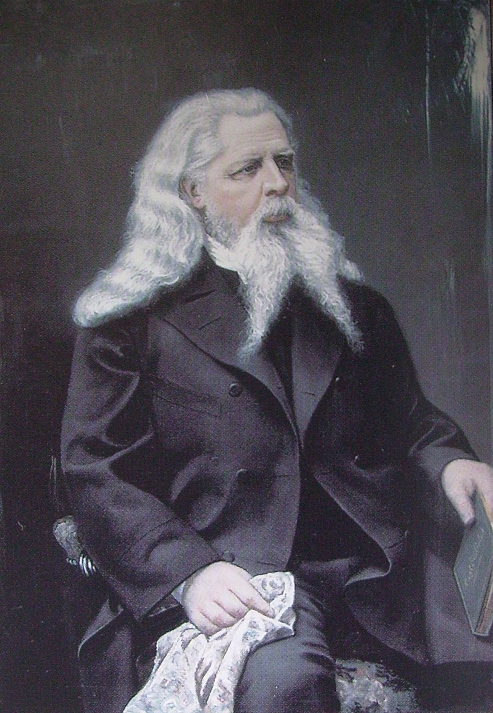 Picture of painting of Gustaf E. Klemming, Swedish librarian